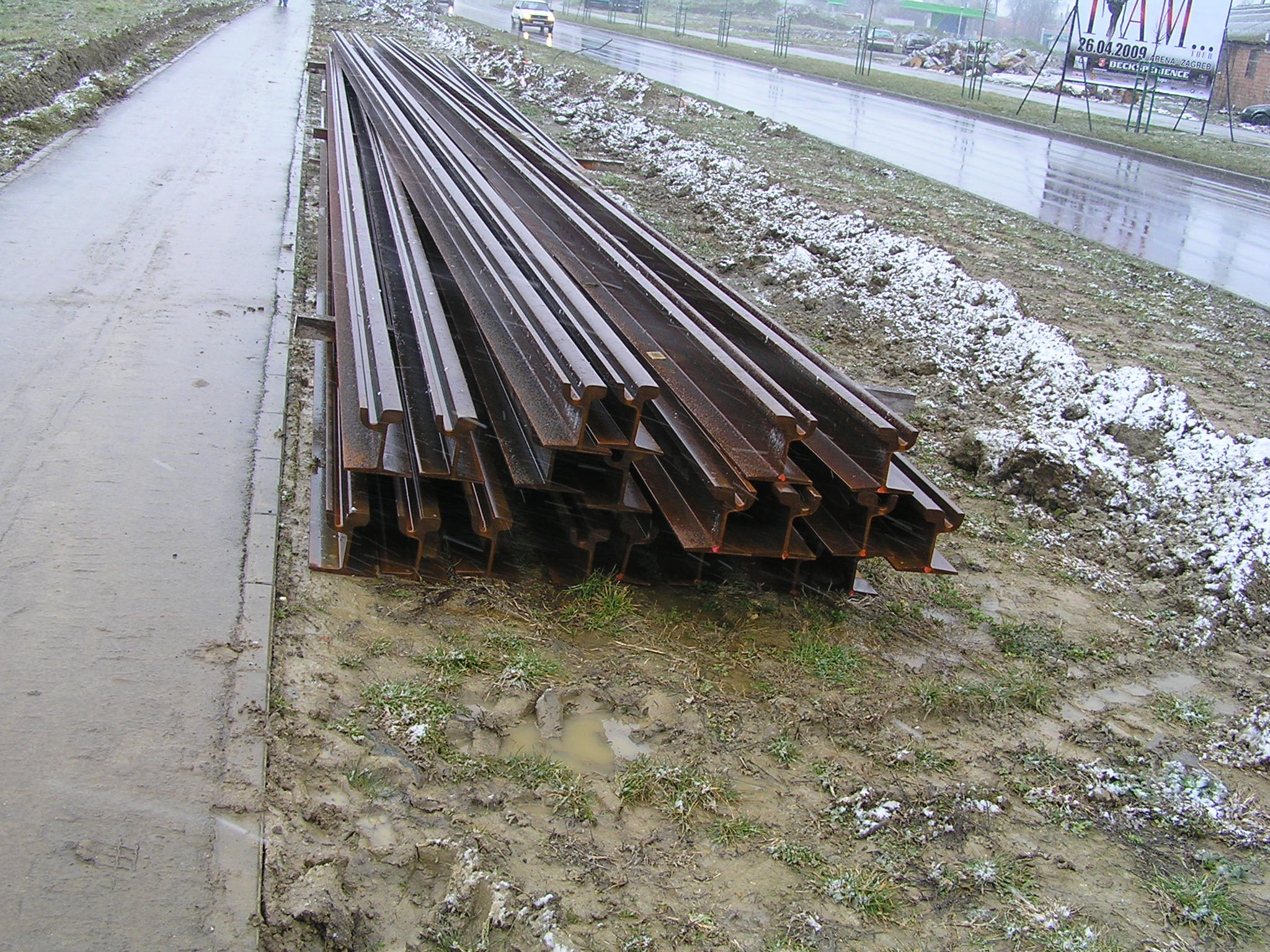 Tramway rails, ready to be built in. Filmed in Osijek, 09.02.2009., as standing ready for the tramway network extension project.